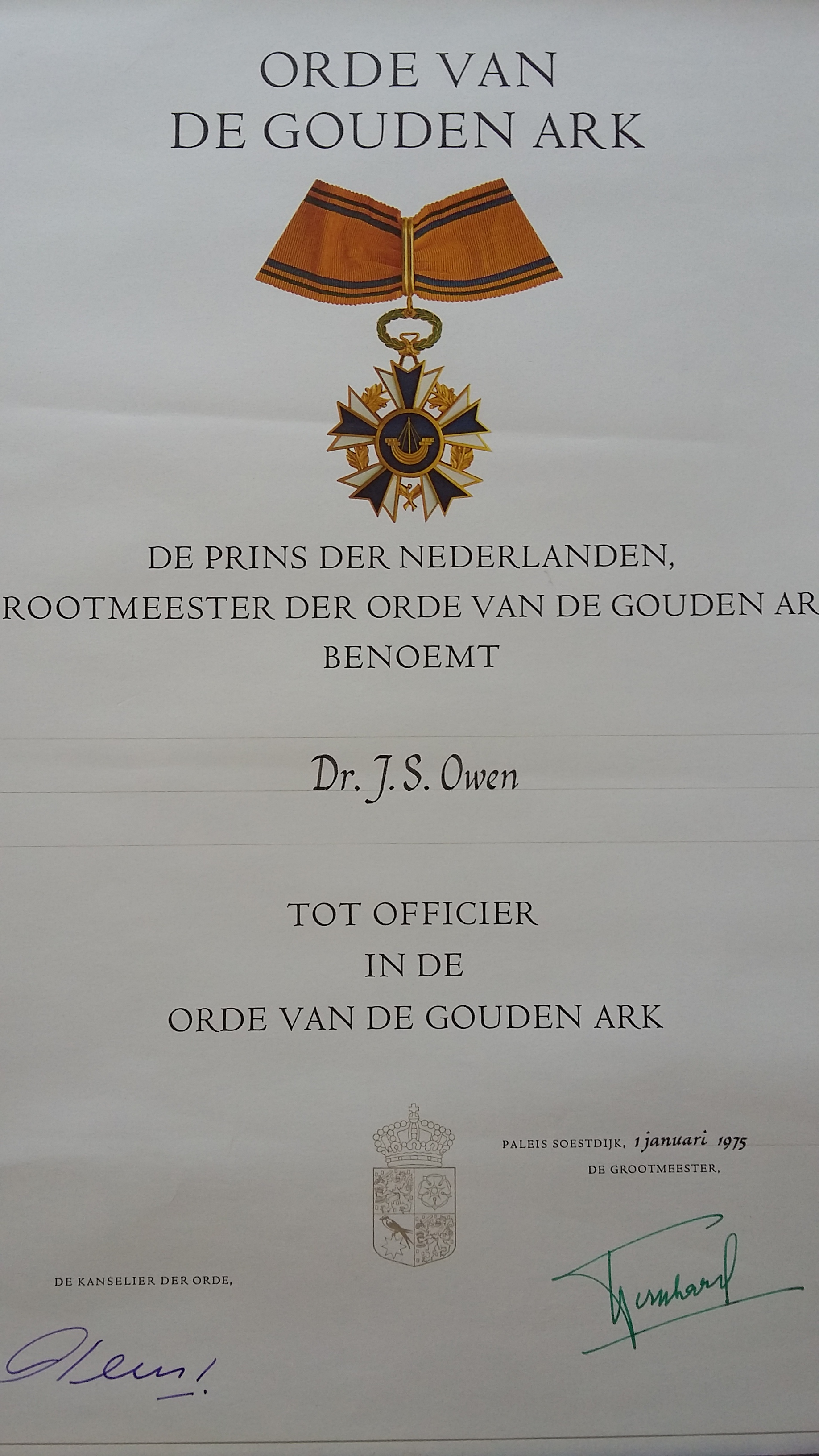 Awarded in 1975